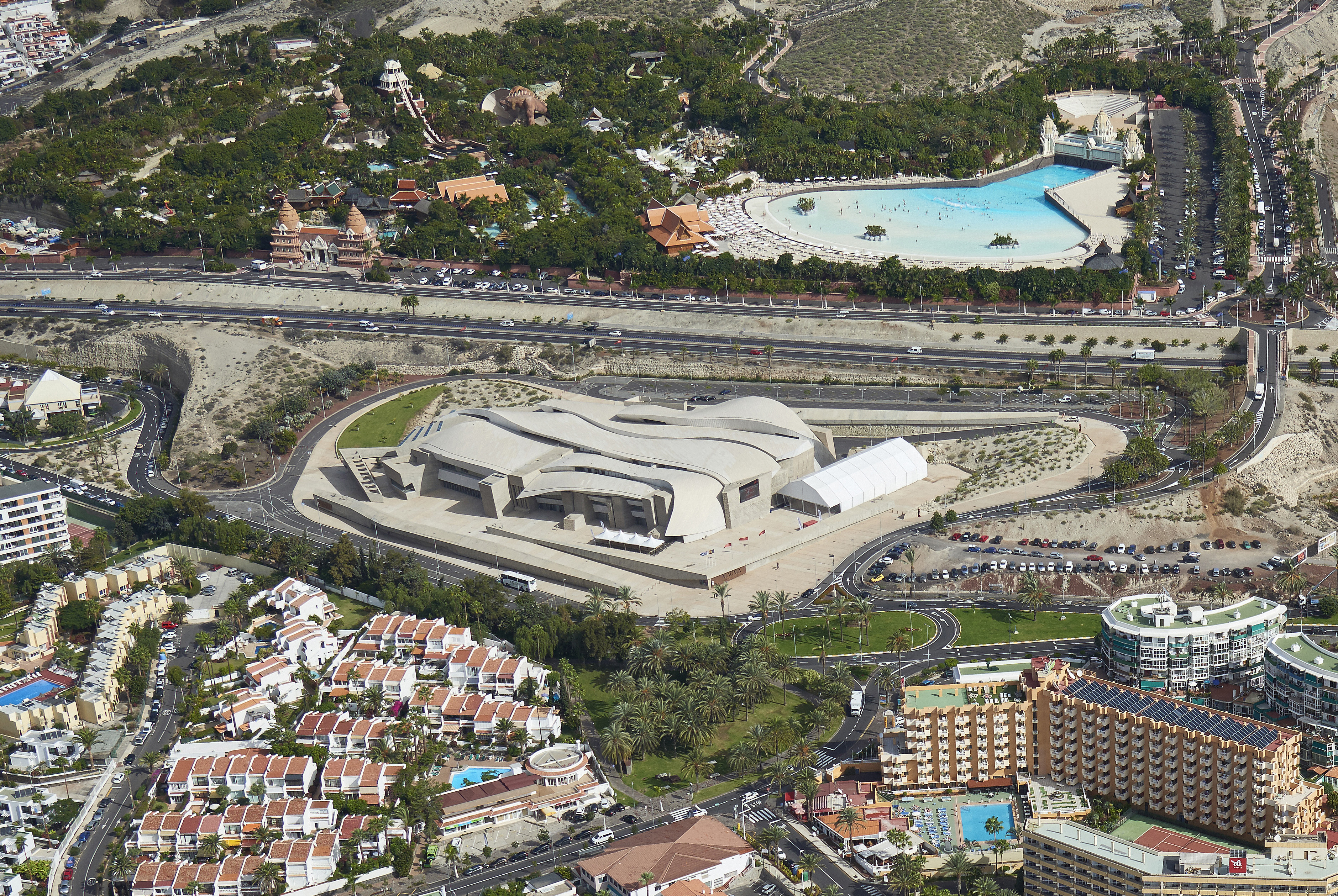 Magma Arte & Congresos is an architectural complex located in Adeje, Tenerife